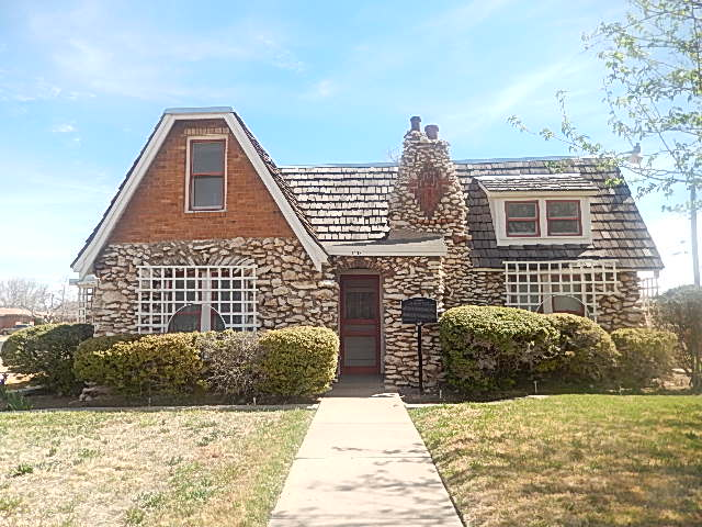 I took photo with Nikon camera of Parker Ranch House Museum in Odessa, TX.